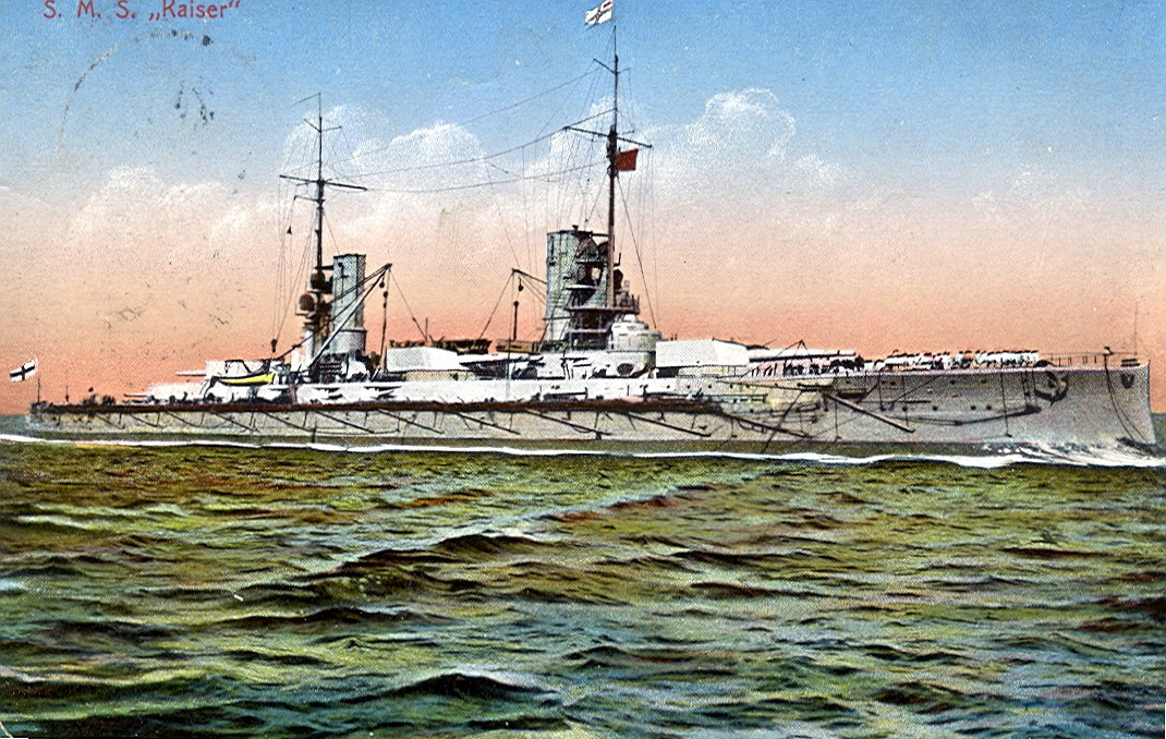 Postcard, dated 11.5.1914. Title: "S.M.S. Kaiser"